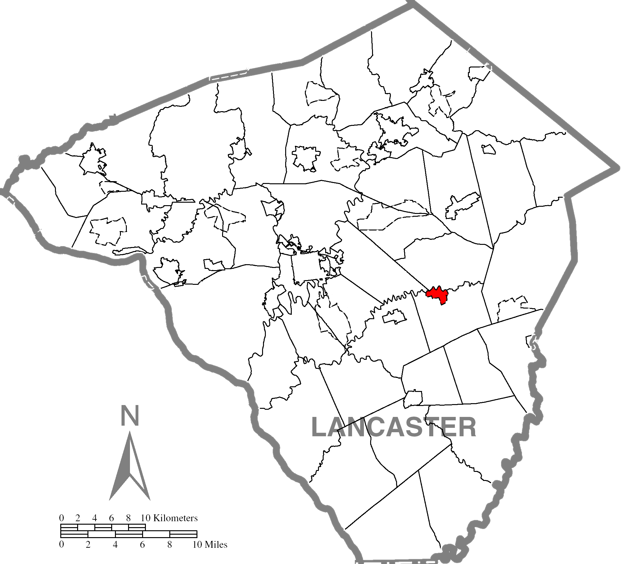 Highlighted Lancaster County map of Paradise.